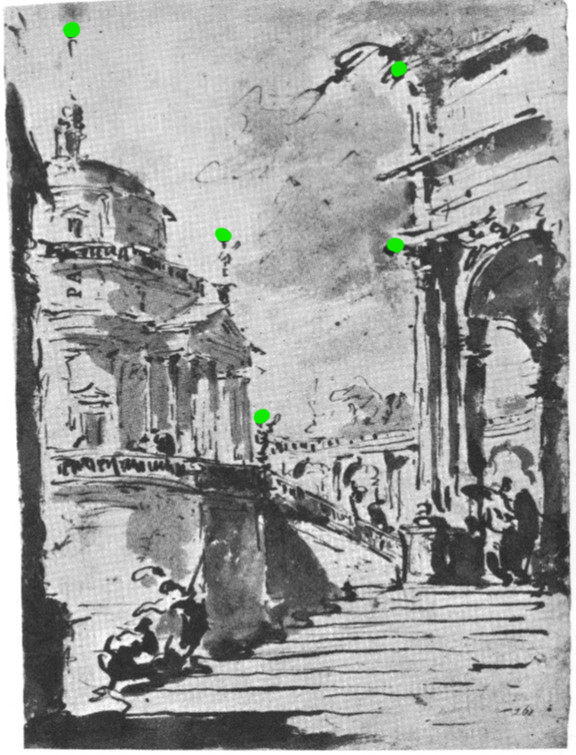 Ascent and Descent